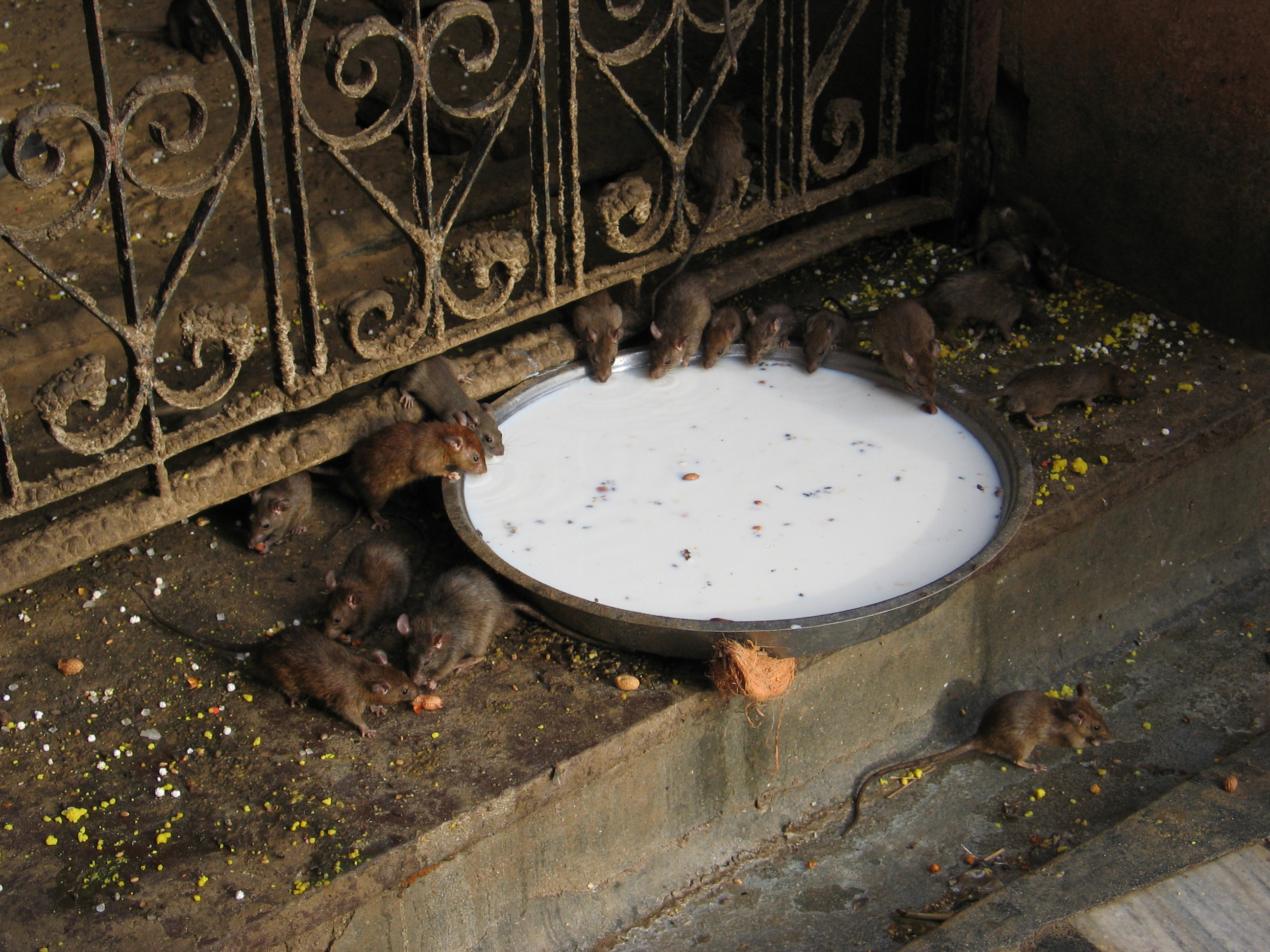 Karni Mata Temple, Deshnoke, Rajasthan, India